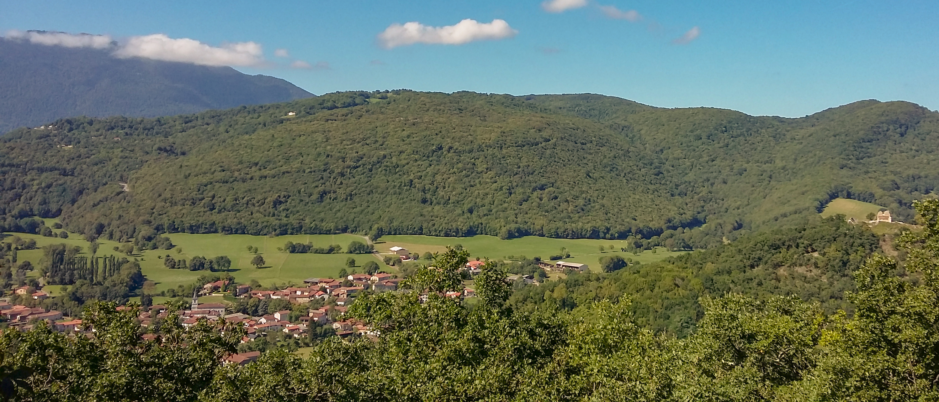 Izaut-de-l'Hôtel, Haute-Garonne, France (Northeast exposure)